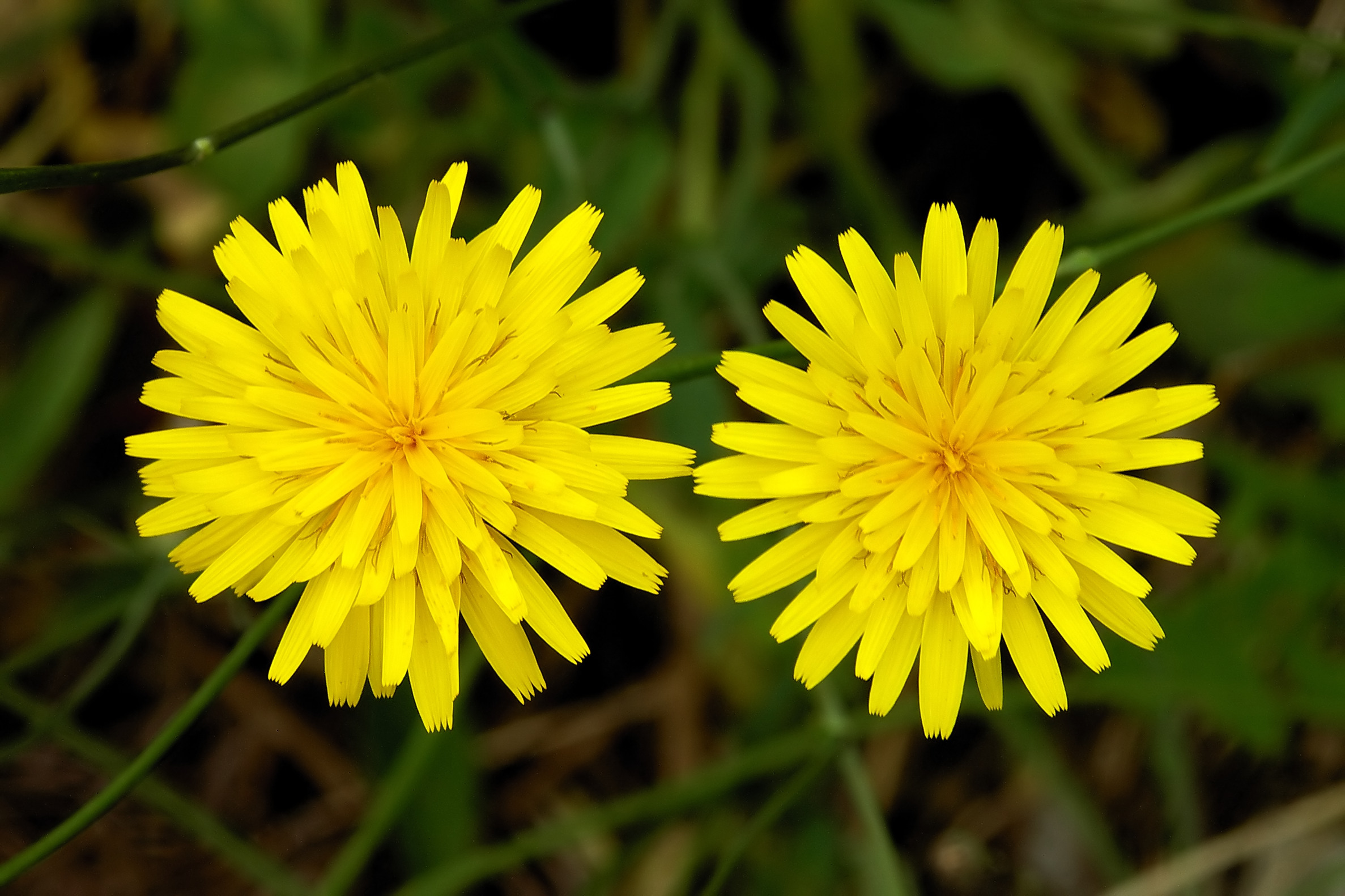 Flowers of Wall Hawkweed (Hieracium muorum) f/8, ISO 100